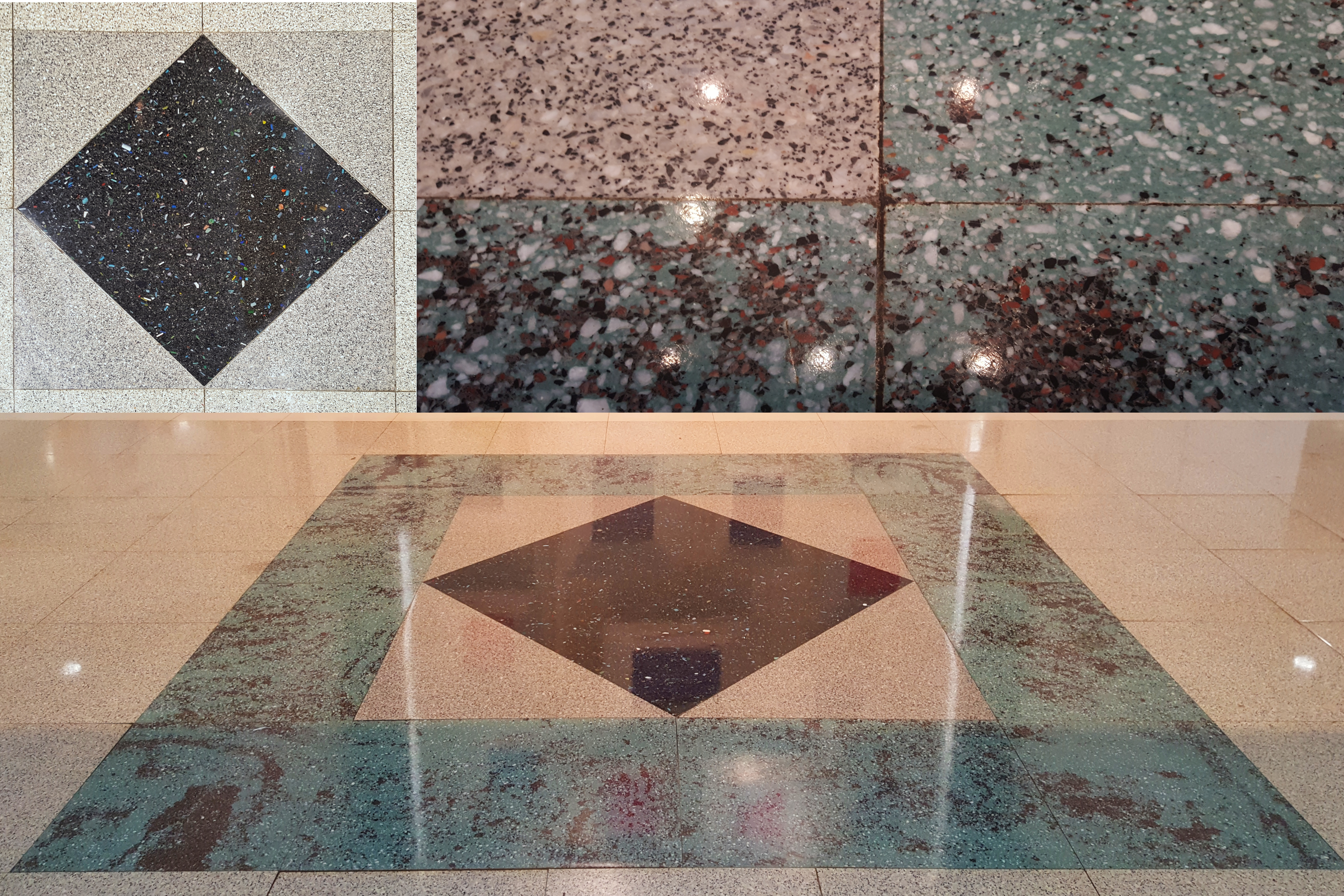 Sheung Tak Plaza Feature floor